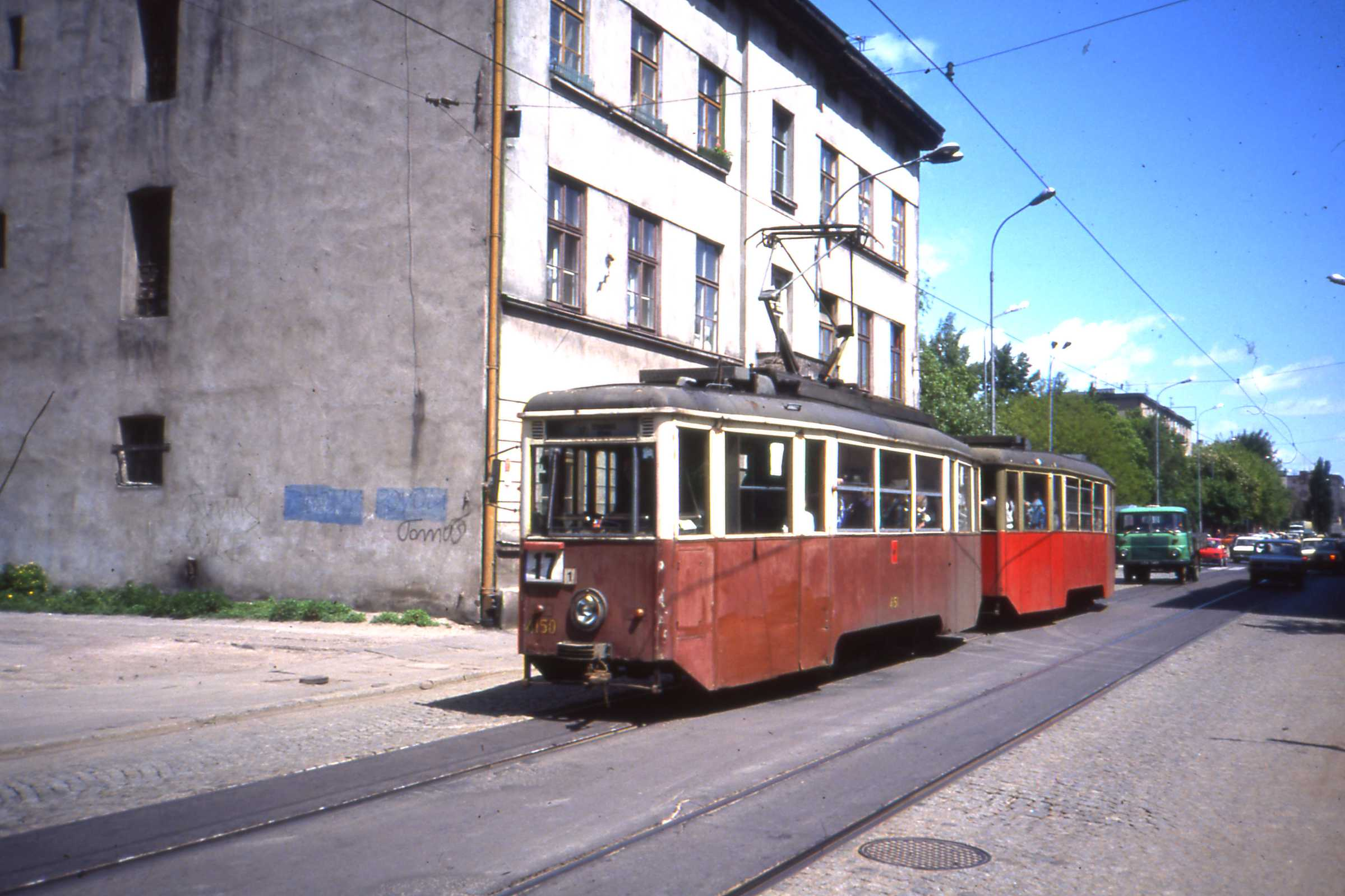 The 1000 mm gauge tram in Łódź, Poland still had a few Konstal N motor and trailer pairs running, this one, no 4150 was operating route 17, and was one of the very last 5N motor cars operating in Lodz, the last of the type running on 27 October 1991. This is possibly car no 350, renumbered, dating from 1960. Only 19 out of the original 210 5N cars were left by 1991.